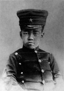 1892年、13歳当時の皇太子嘉仁親王(Crown Prince Yoshihito/Emperor Taishō)。歩兵中尉の制服。